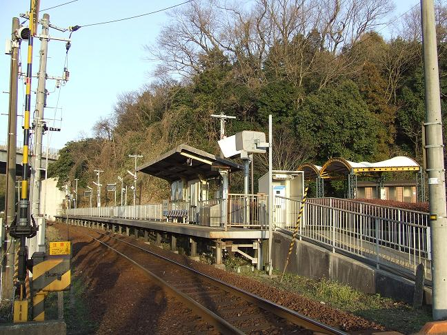 Okawachi Station platform